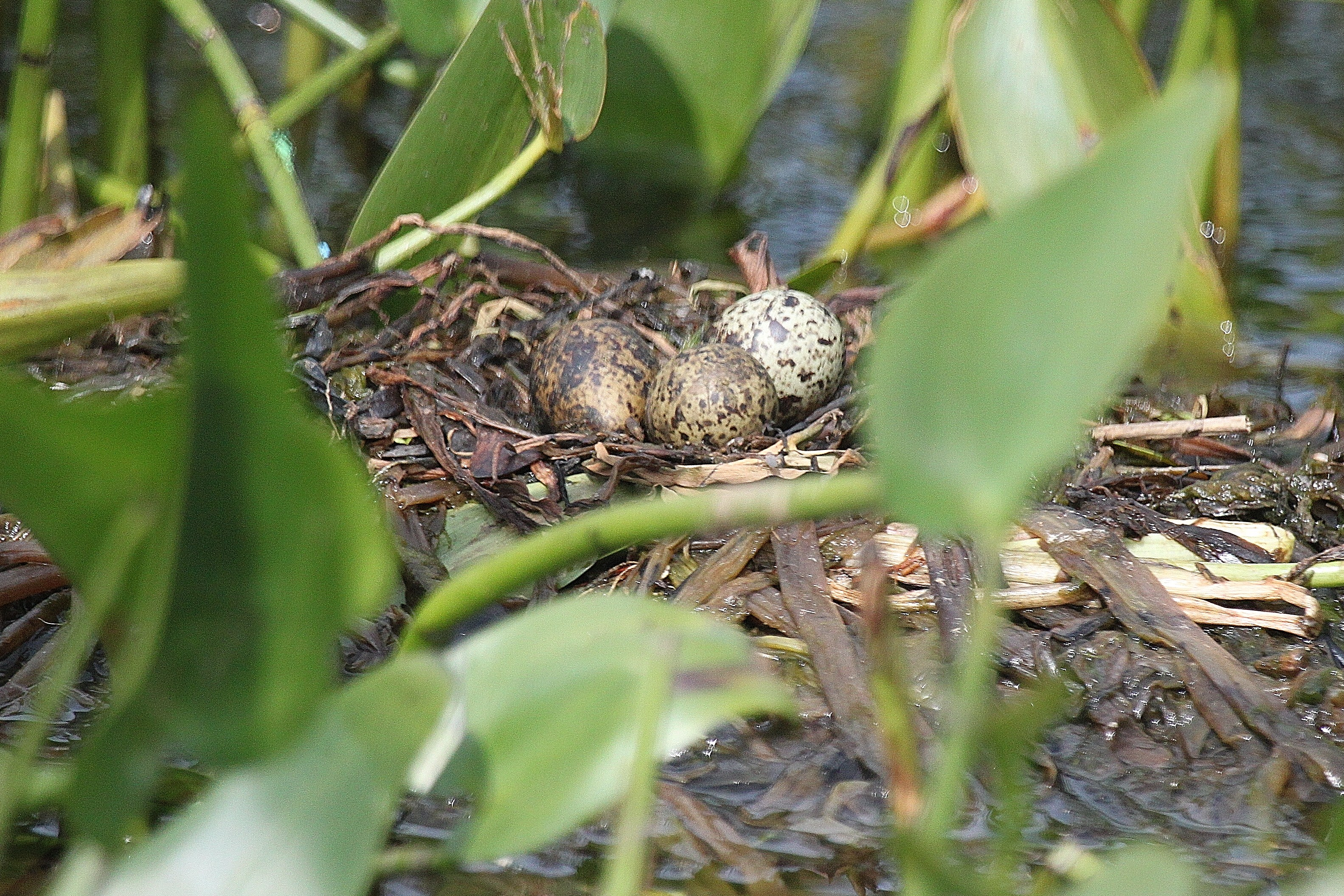 Black tern nest photographed at Missisquoi National Wildlife Refuge credit: Ken Sturm/USFWS